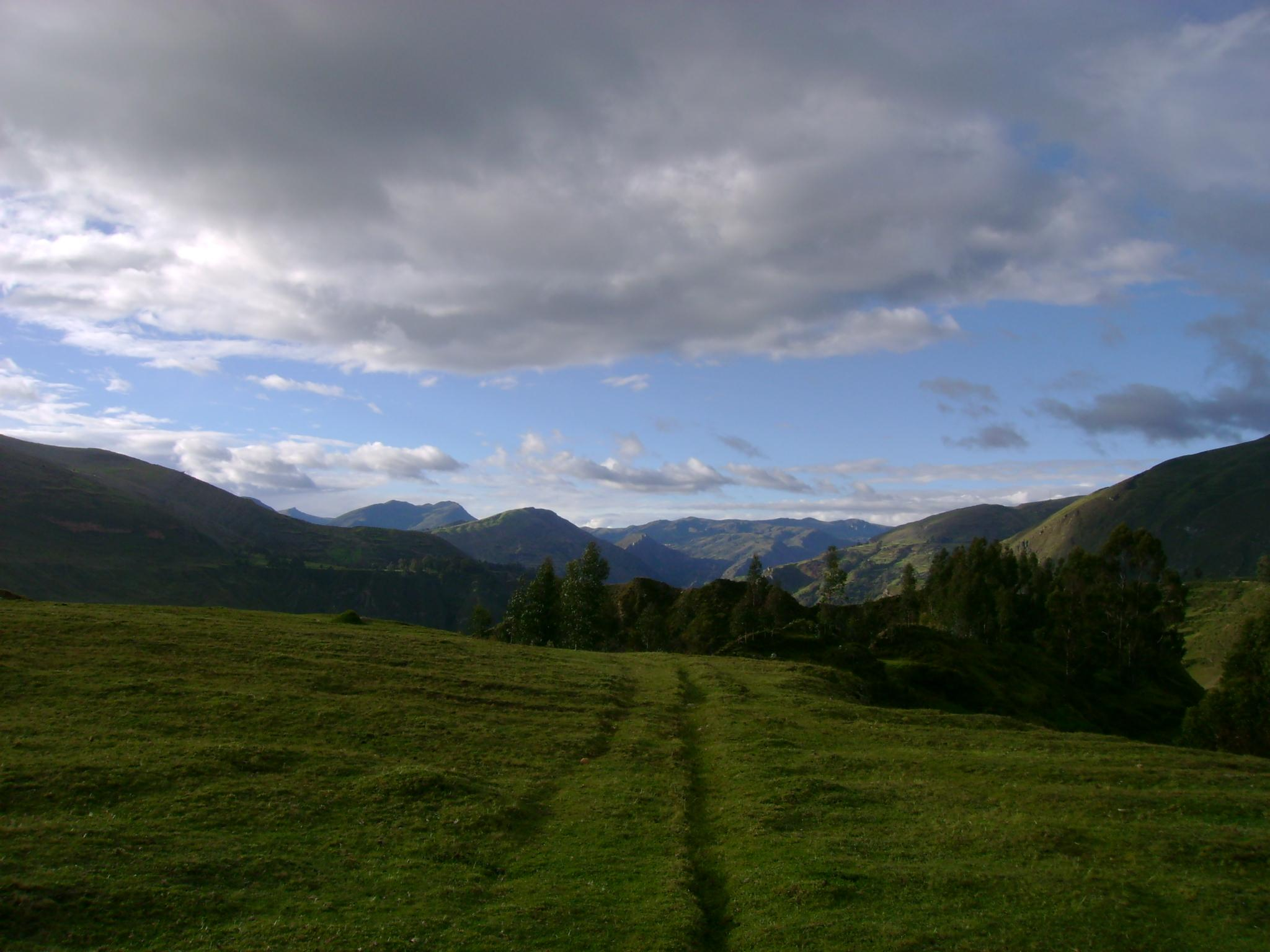 Near the gorge Marcarragra, front and behind Gangash Vizcarra Valley.